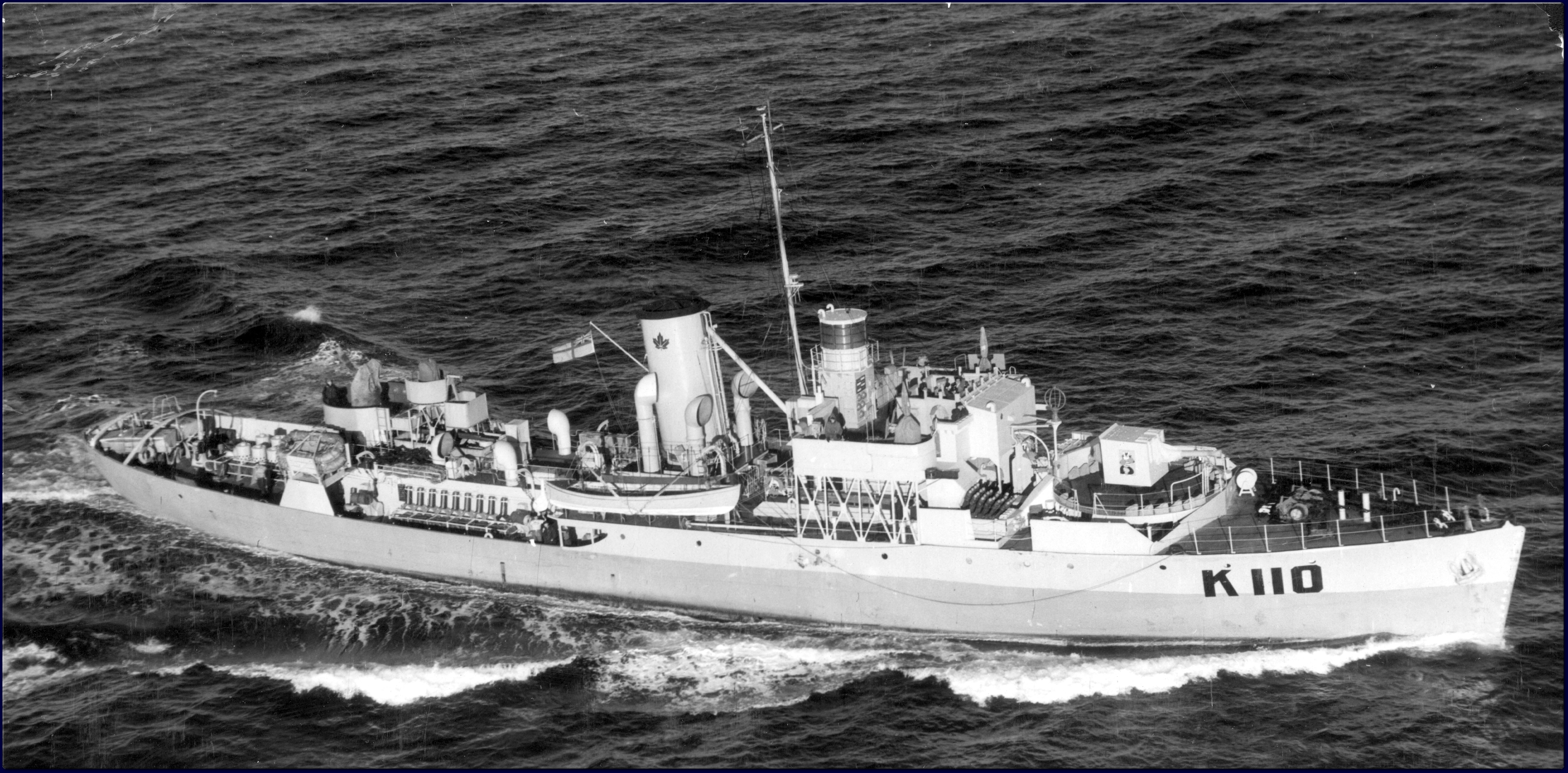 HMCS Shediac, 16 December 1944. Photographed by Royal Canadian Air Force at 50.20N/128.50W.